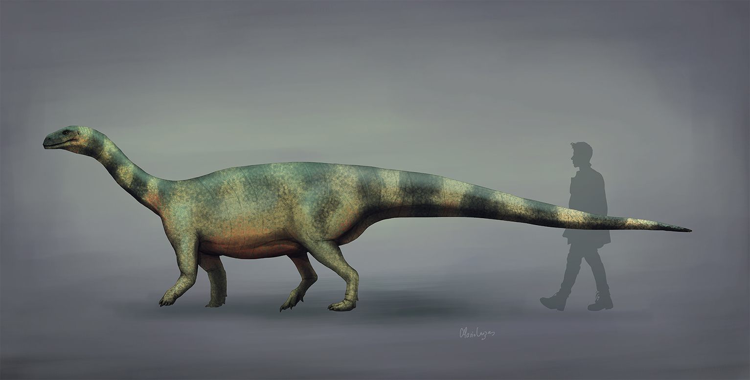 Melanorosaurus life restoration 2018 by Mario Lanzas